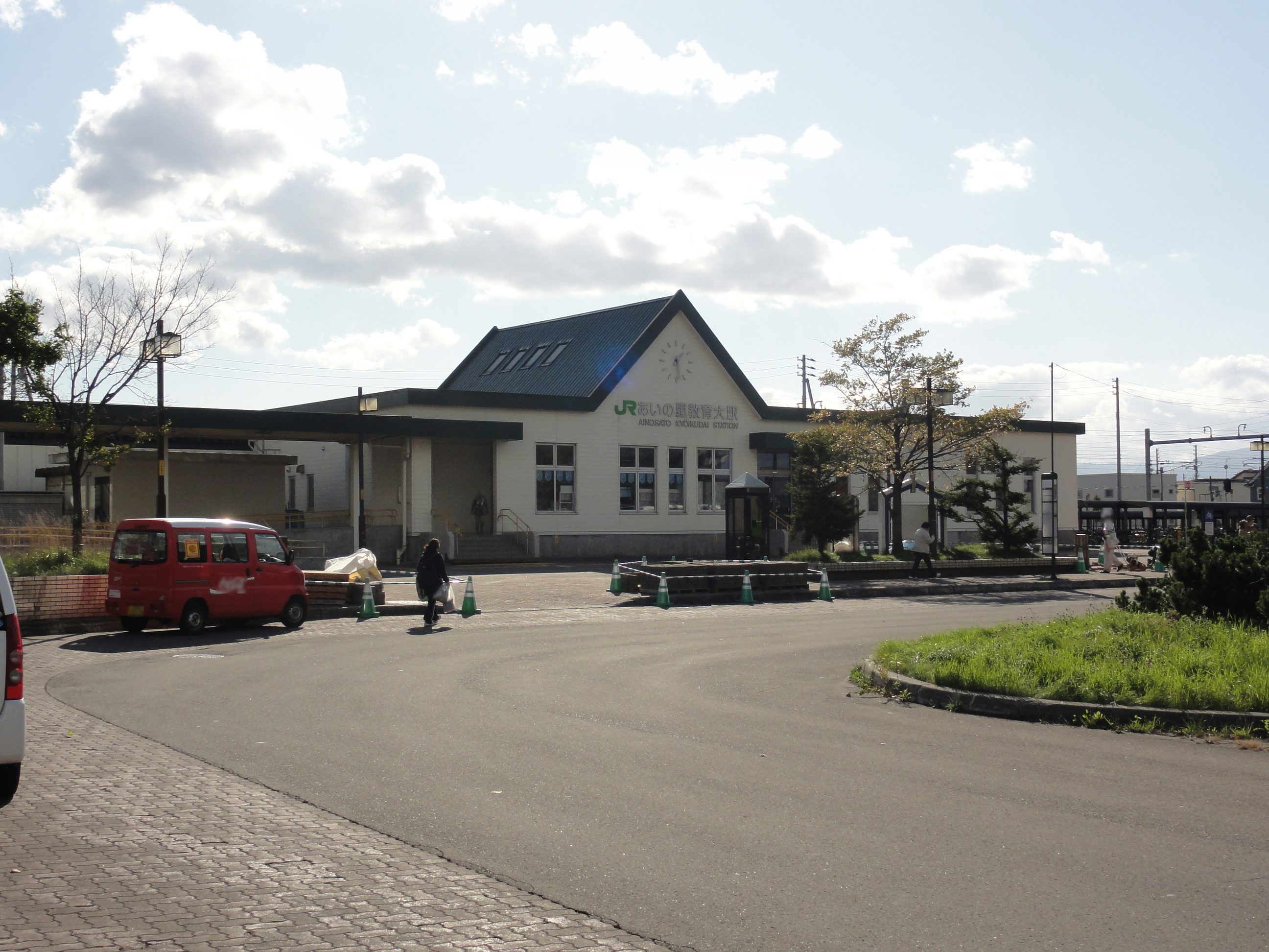 North entrance of Ainosato-Kyōikudai Station on the Sasshō Line (Kita-ku, Sapporo, Hokkaido)